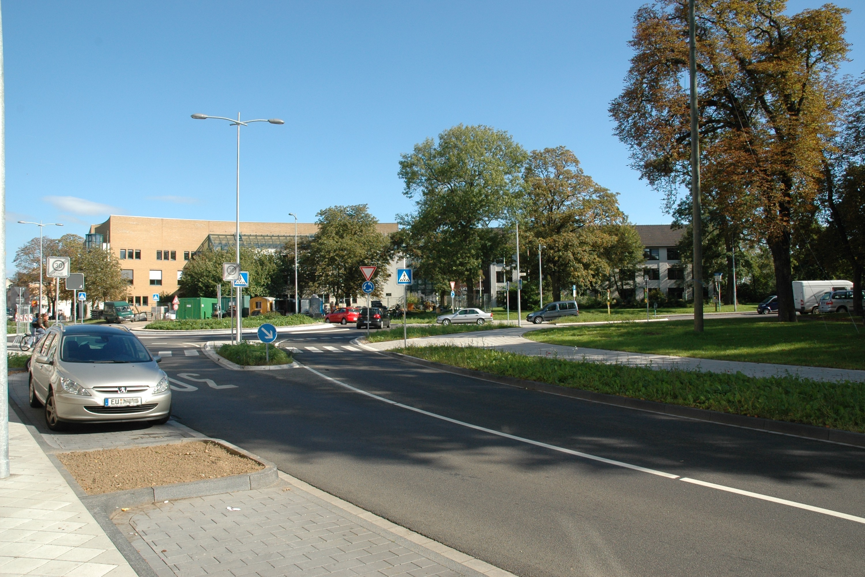 Disctrict Court Euskirchen, Sept. 2007